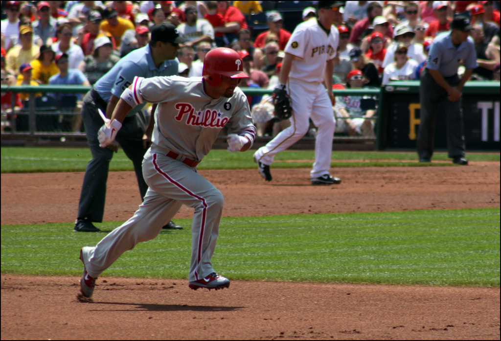 Shane Victorino on the basepaths during a 2011 game vs the Pittsburgh Pirates.